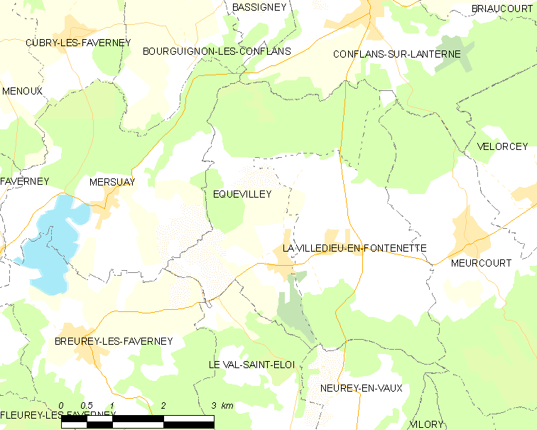 Map of French municipality